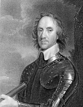 Painting of Oliver Cromwell